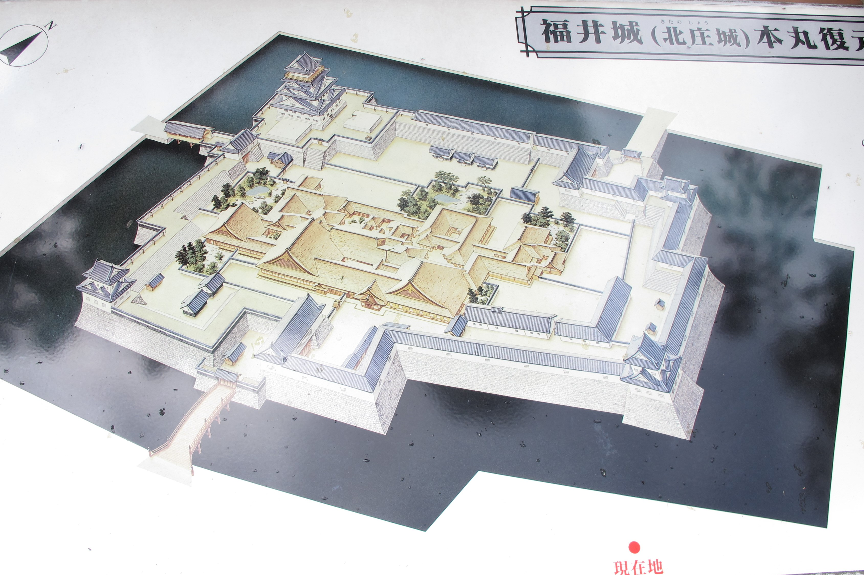 Fuki castle overview